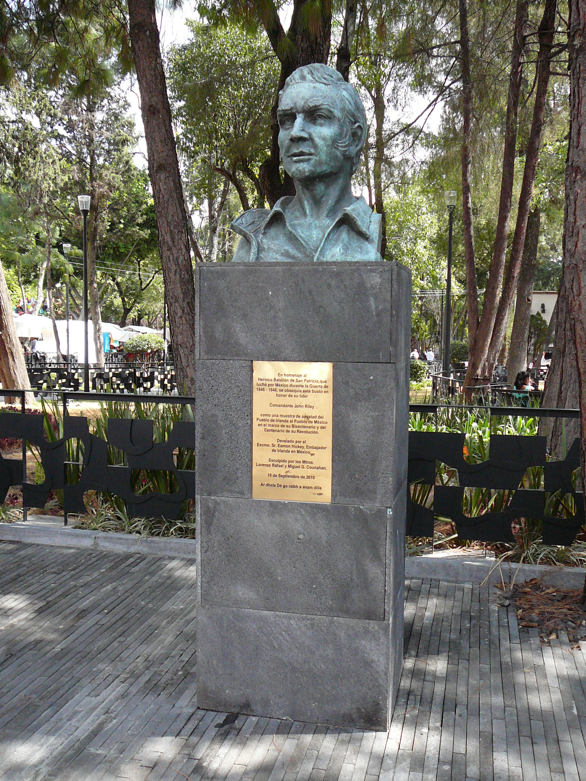 Comandante John Riley, Monumento al Heroico Batallón de San Patricio. John Riley served with the Saint Patrick's Battalion on the Mexican side, during America's unjust invasion of Mexico 1846-48. His bronze bust stands on a pedestal in the Plaza San Jacinto, San Ángel district, Mexico city. It was unveiled by the Irish Ambassador Eamon Hickey in September 2010, when donated by the Mexican state.